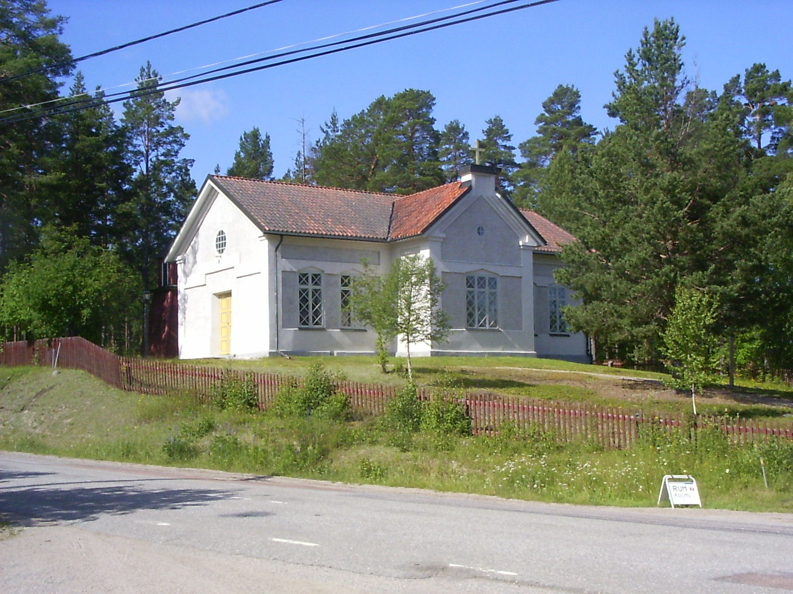 Svabensverk, church